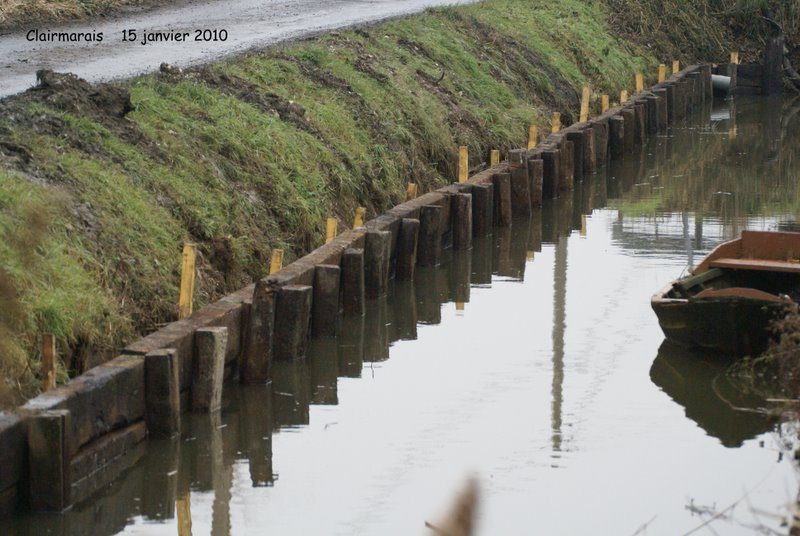 Example of restoration of shoreline of freshwater with former Railroad ties treated with creosote in late 2009-early 2010, in a wetland (Romelaëre wetland, path Boneghem, Clairmarais, near Saint-Omer, Department Pas-de-Calais, France). Creosote contains many pollutant molecules.